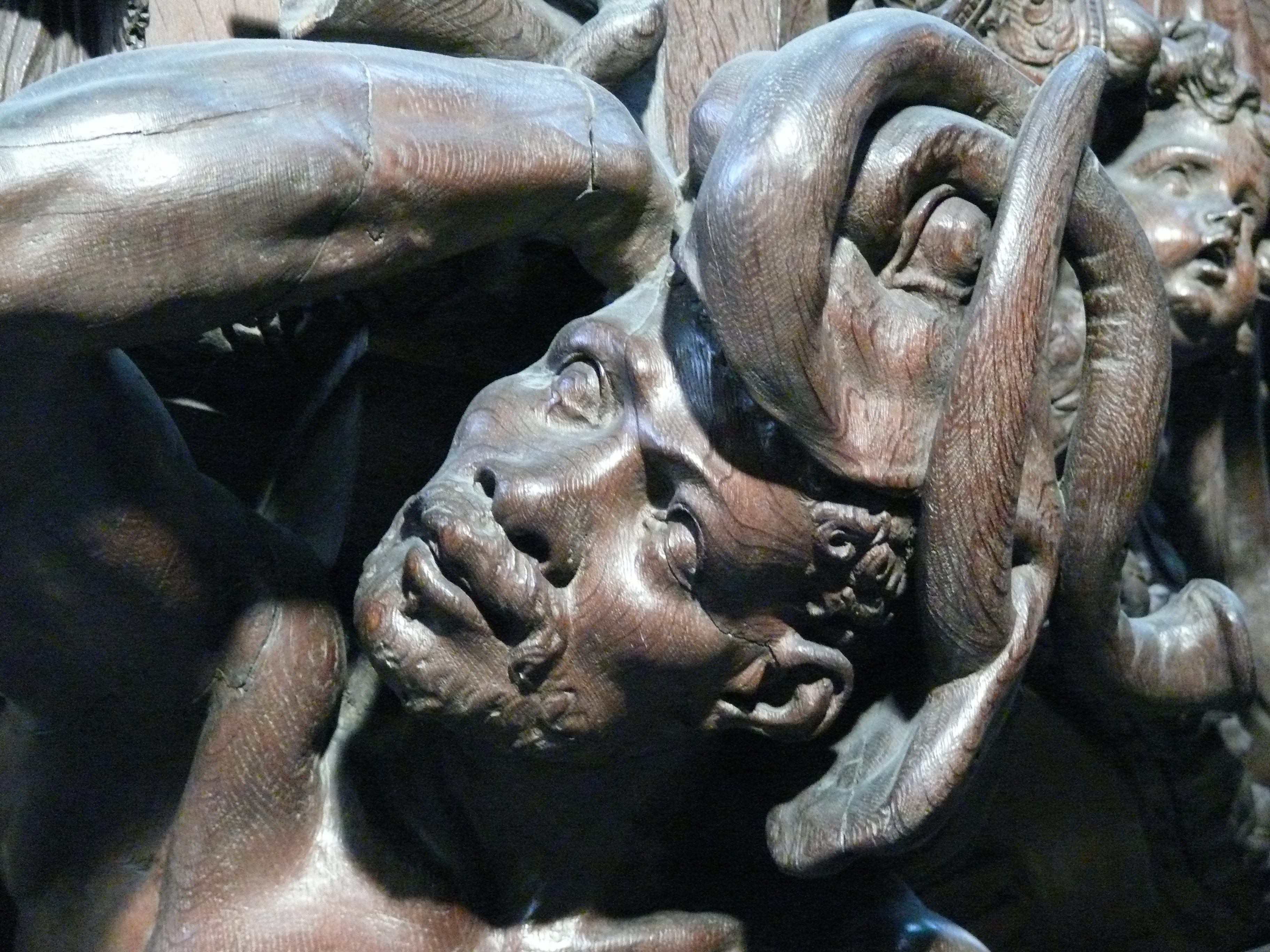 The Sint-Pieters- en Pauluskerk (Saint peter's and Paul's Church) is a former Jesuit Church in Mechelen. The pulpit was sculpted by Hendrik Frans Verbruggen (April 30, 1654 in Antwerp – December 12, 1724, Antwerp). The allegorical figure for Africa. The pulpit rests on a globe carried by land animals; allegories for the four known continents are sitting on the globe: America: indian, tortoise and snake Europe : a young woman with cornucopia, a sceptre, a book and a hind Asia: a woman with turban and leopard Africa: a black man covered in elephant skin and crocodile